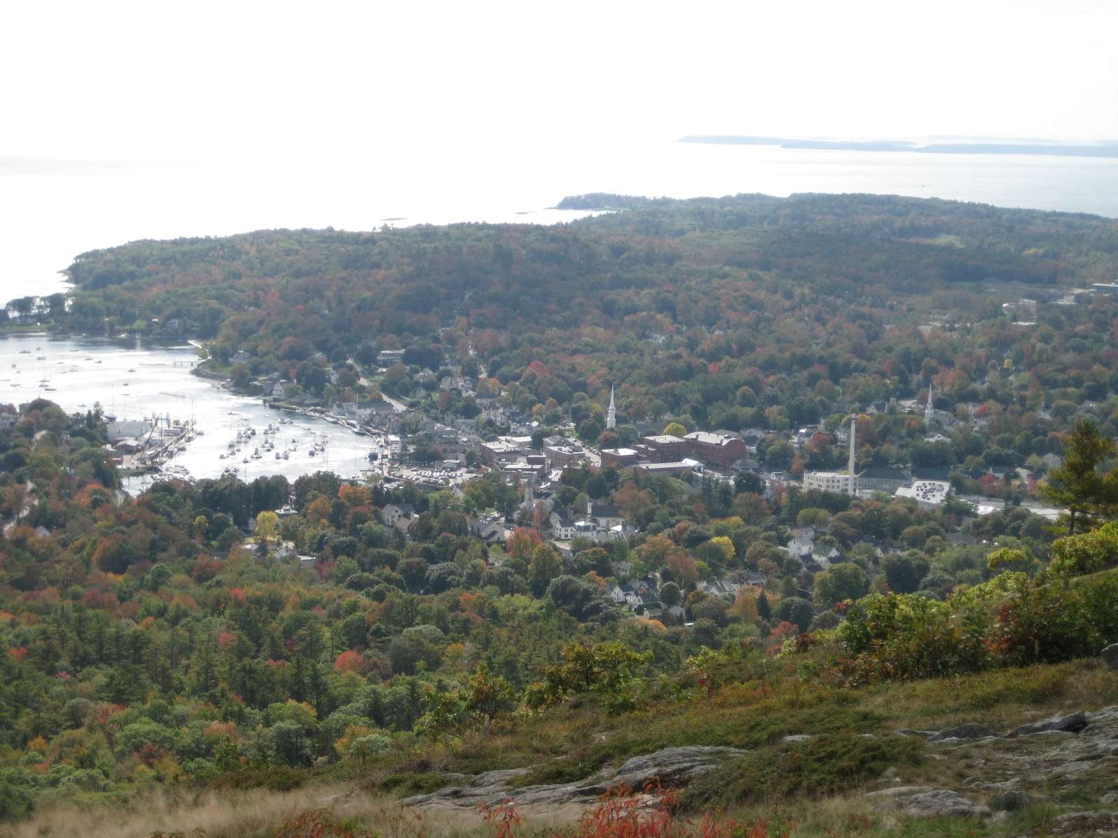 Camden, Maine viewed from the summit of Mount Battie.